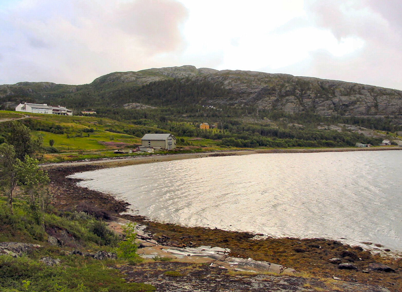 The Alta Rock Carving Museum, a UNESCO World Heritage Site. The museum building is the one to the left, and the carvings themselves are found on various bare rock between the building and the stony beach. Photo taken by Bjørn Christian Tørrissen (uspn@wikipedia) in August 2004 in Alta, Norway. The photo is part of an on-line Finnmark gallery, at